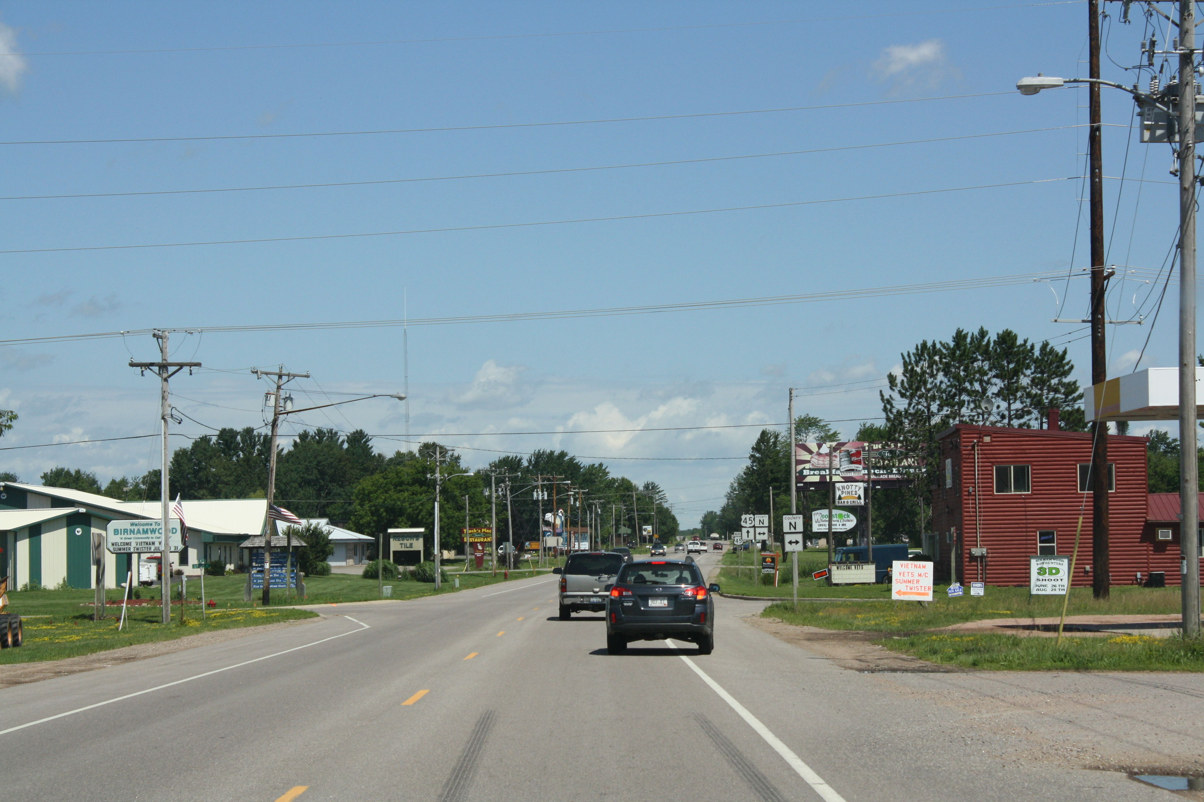 Looking north at downtown Birnamwood, Wisconsin on U.S. Route 45.